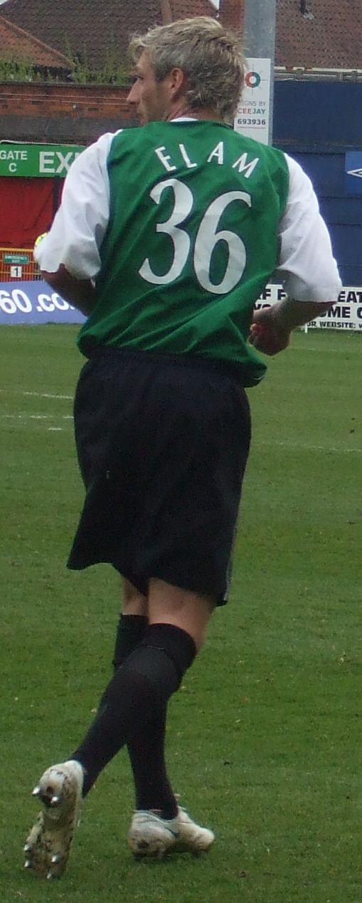 Lee Elam